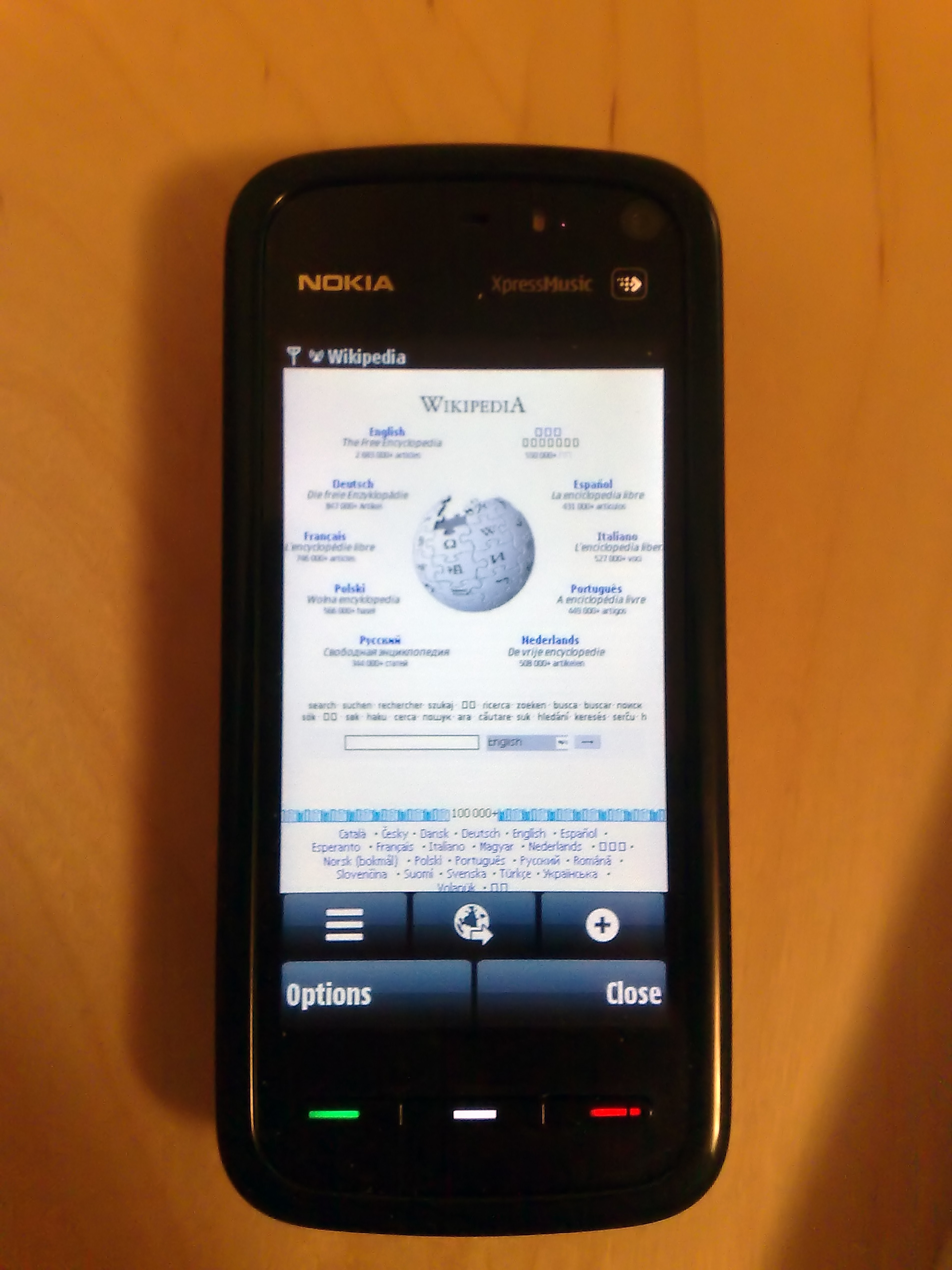 Nokia 5800 XpressMusic showing Wikipedia's main page.